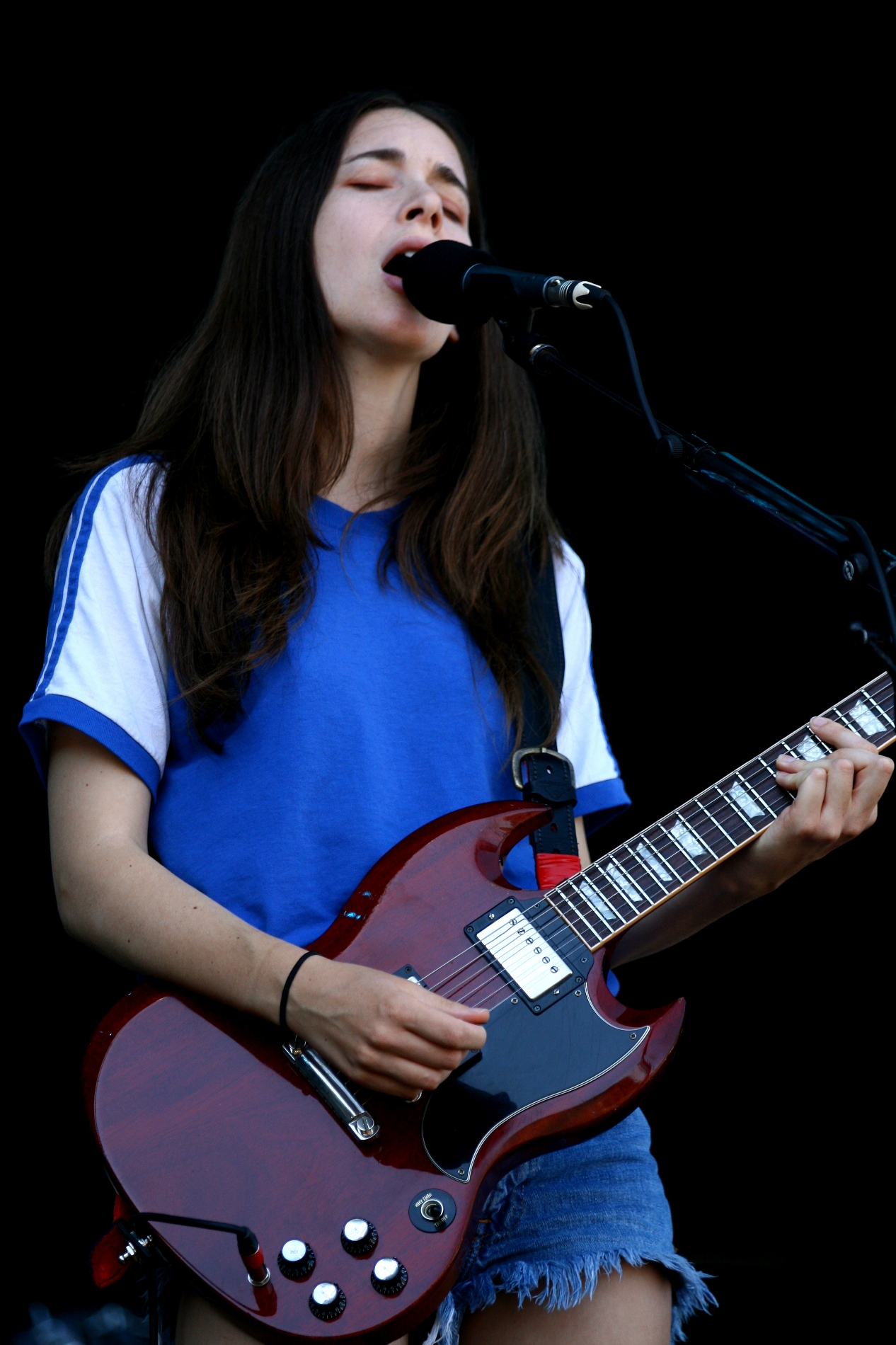 Danielle Haim, singer of Haim, Rock im Park Festival 2014. Festivalsommer This photo was created with the support of donations to Wikimedia Deutschland in the context of the CPB project "Festival Summer".